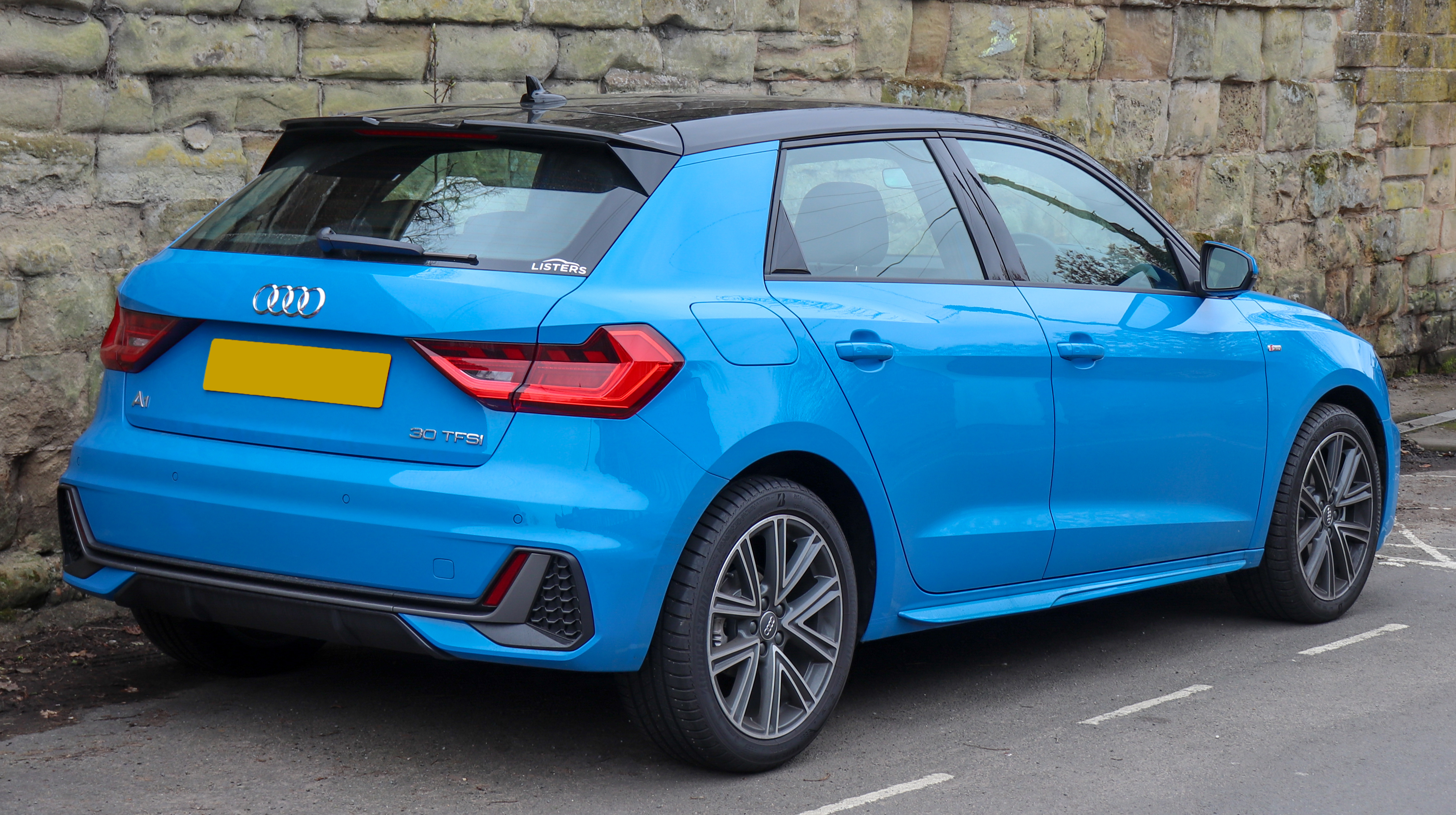 2019 Audi A1 S Line 30 TFSi 1.0 Rear Taken in Warwick